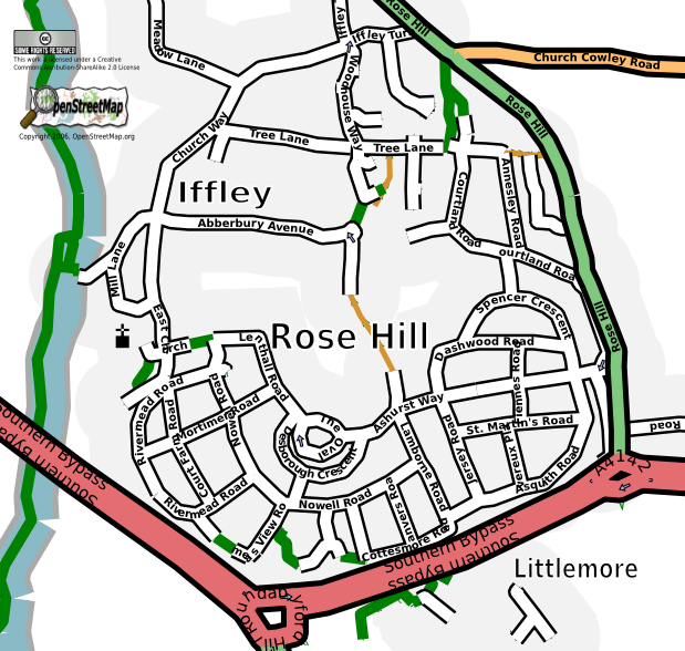 A map of Rose Hill in Oxford.Based on OpenStreetmap data, as of Sunday 3rd September 2006, and produced using OsmaRender This cut-out may be incomplete, and may contain errors, or may be obsolete. Don't rely solely on it for navigation. See the image in the present state and its original context on the OpenStreetMap wiki page for Oxford